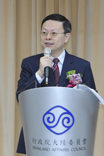 Dr. Yu-chi Wang